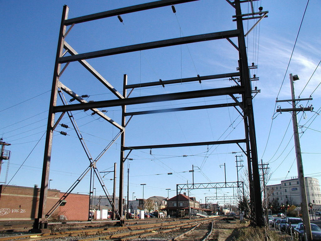 Former Reading Railroad electrification power infrastructure at Lansdale. 22Kv (top) feeders are directed into the substation and 11Kv feeders (bottom) return to the catenary. The Landsdale station is in the background.